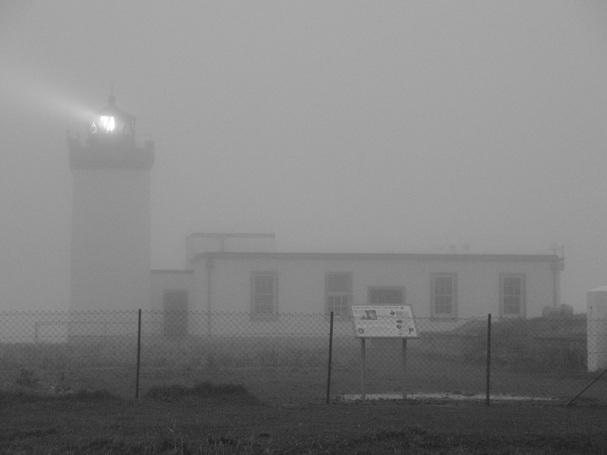 The lighthouse at John o' Groats in foggy weather.